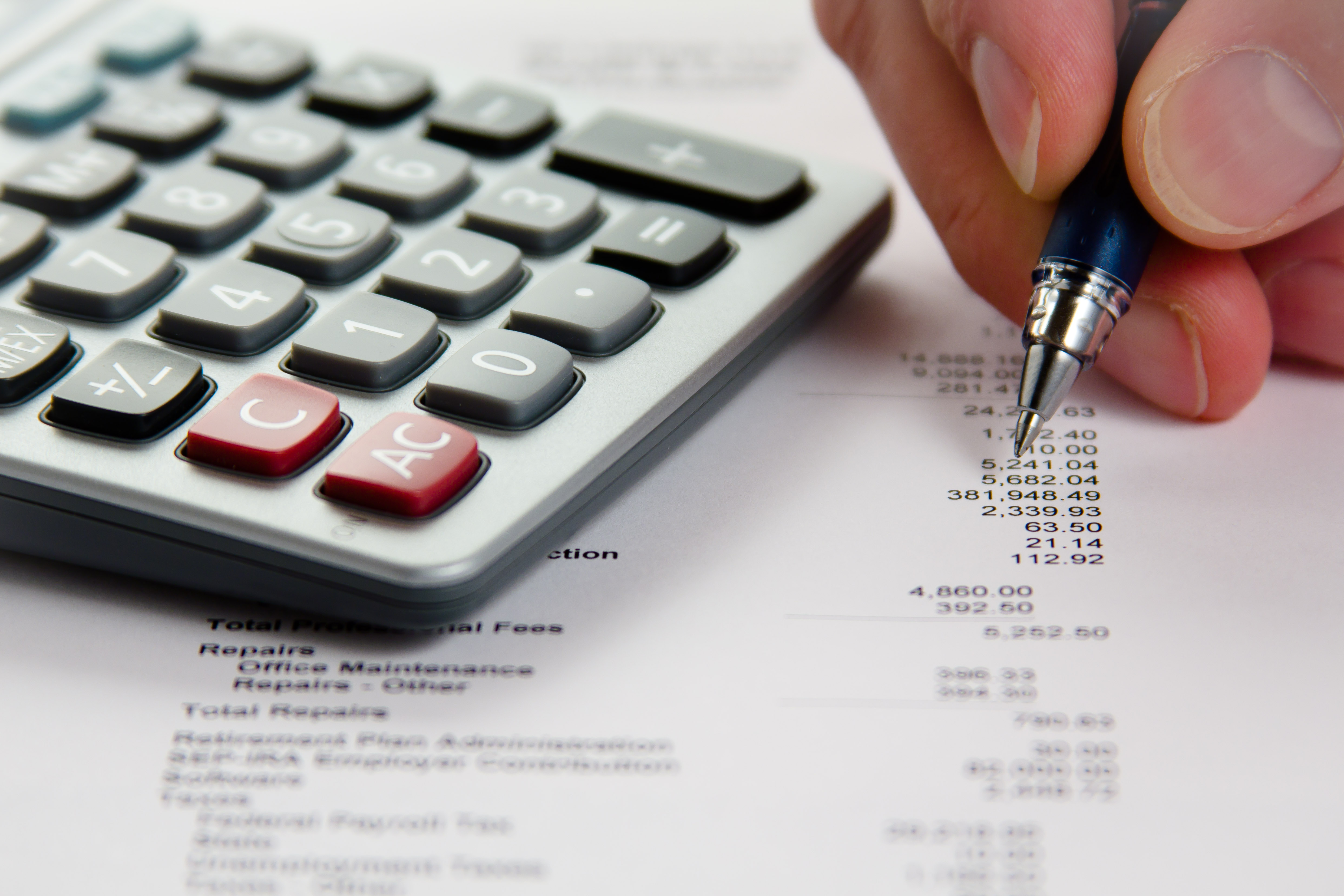 Closeup of calculator, hand, pen and financial statement.